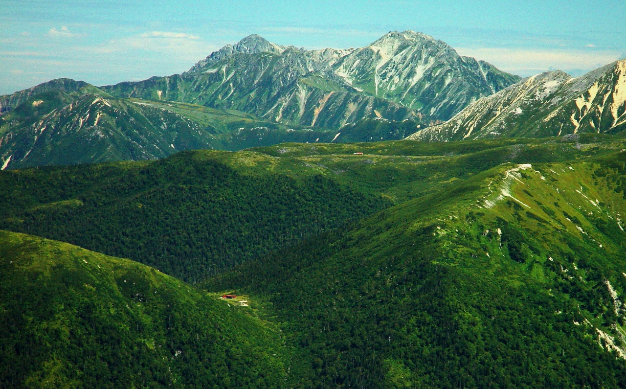 Kumonotaira plateau seen from Mount Nukedo. The Kurobegoro Hut can be seen with Mount Tsurugi and Mount Tate in the background, in Hida Mountains , Japan.